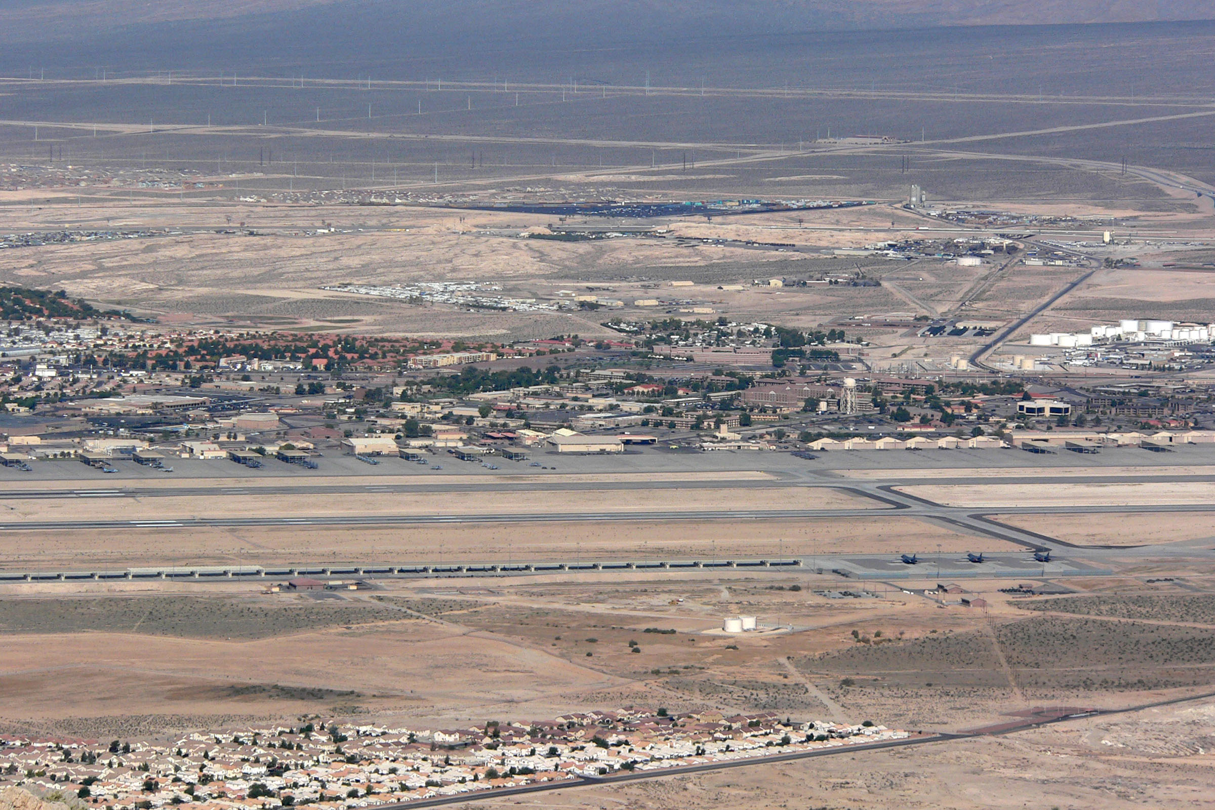 One of Nellis Air Force Base seen from Frenchman Mountain.